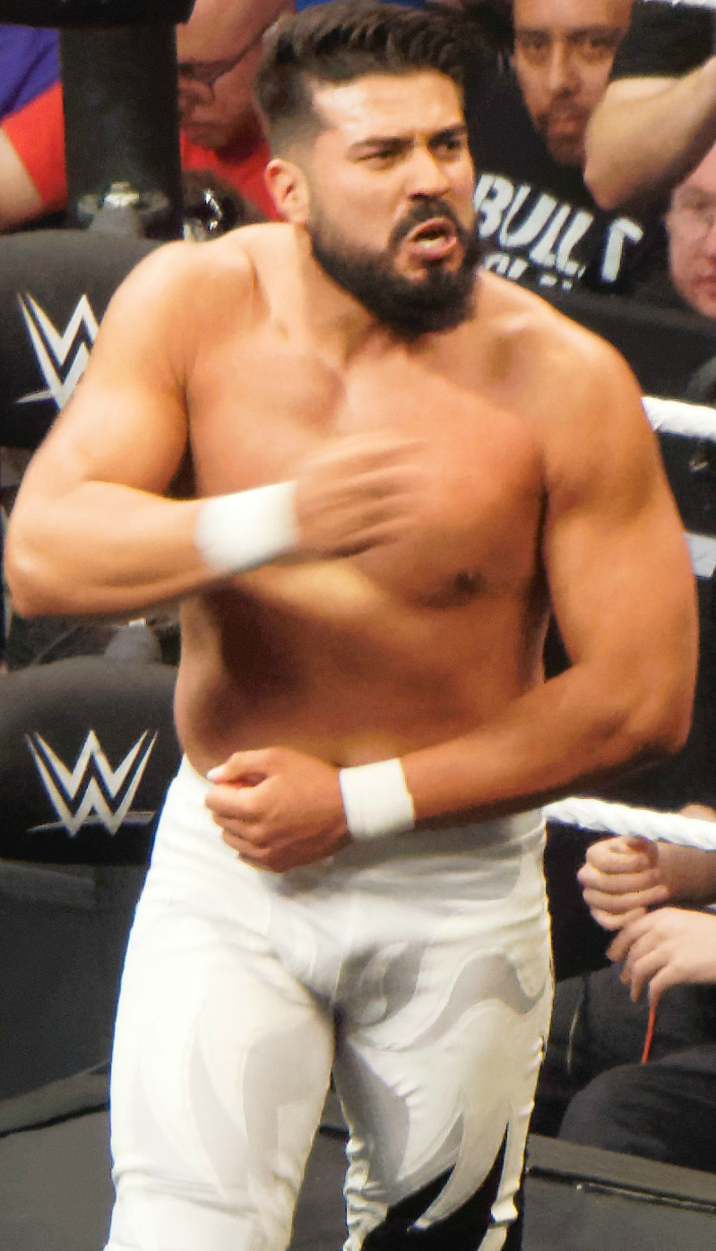 Andrade during the NXT Takeover Dallas event on April 1, 2016.